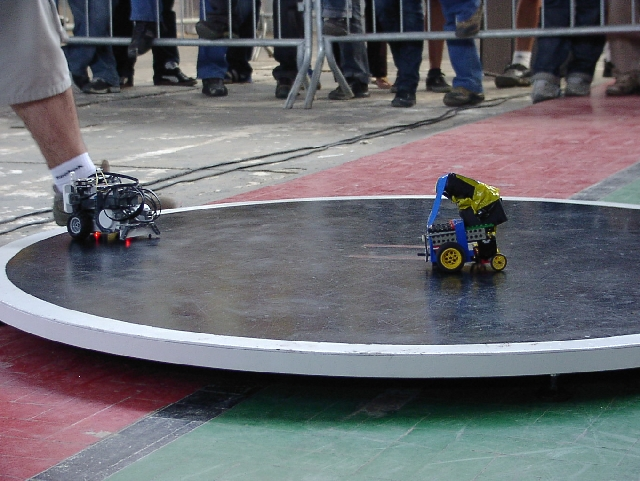 Robot Sumo